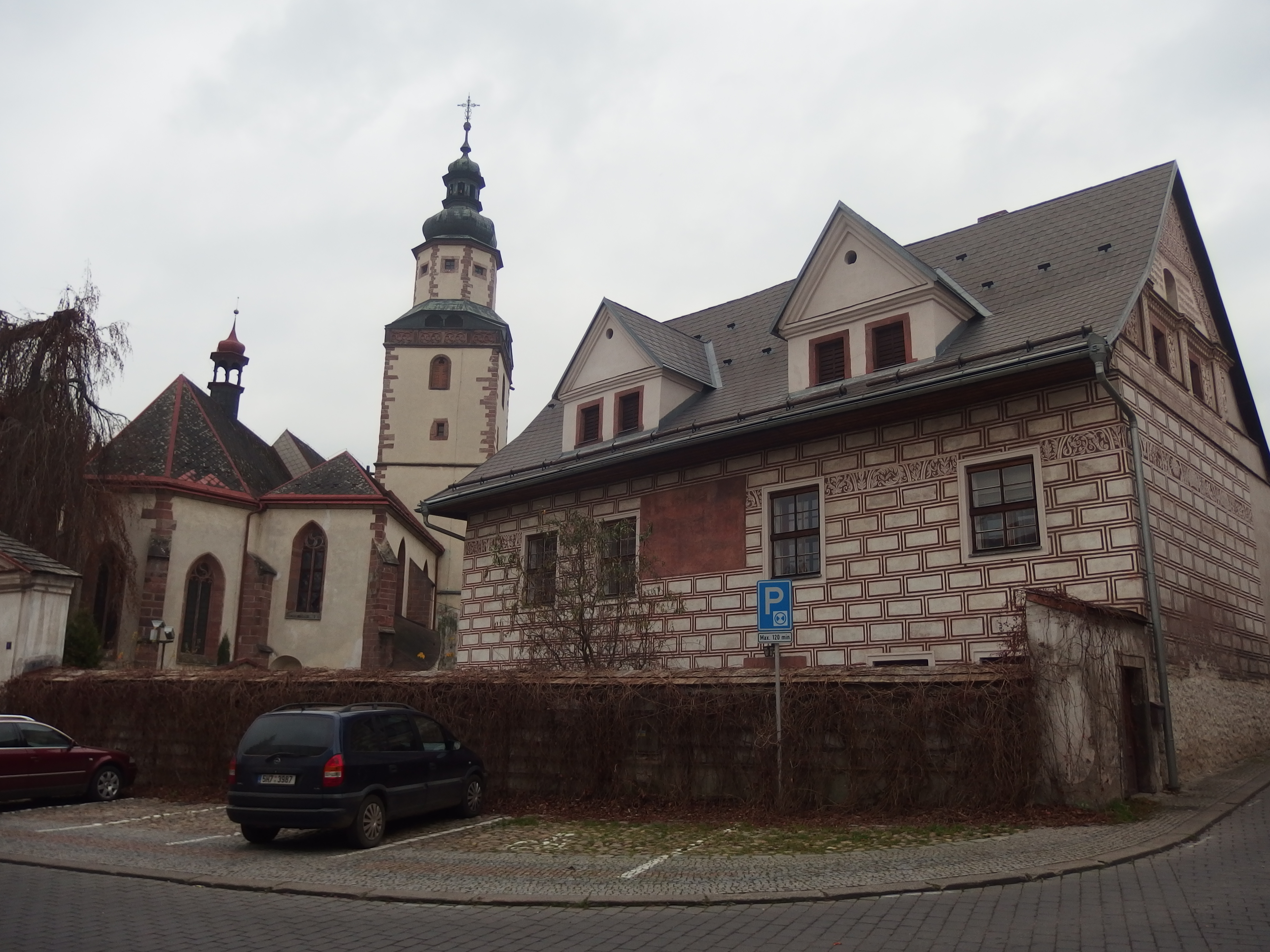 Hostinné, Trutnov District, Czech Republic.